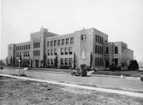 This is what the Los Angeles Junior Seminary looked like shortly after it was built in 1926. This building also served as St. John Vianney High School from 1954 to 1966. St. John Vianney Chapel, the only remaining portion of this original building, can be seen on the extreme right (North) side of the building.